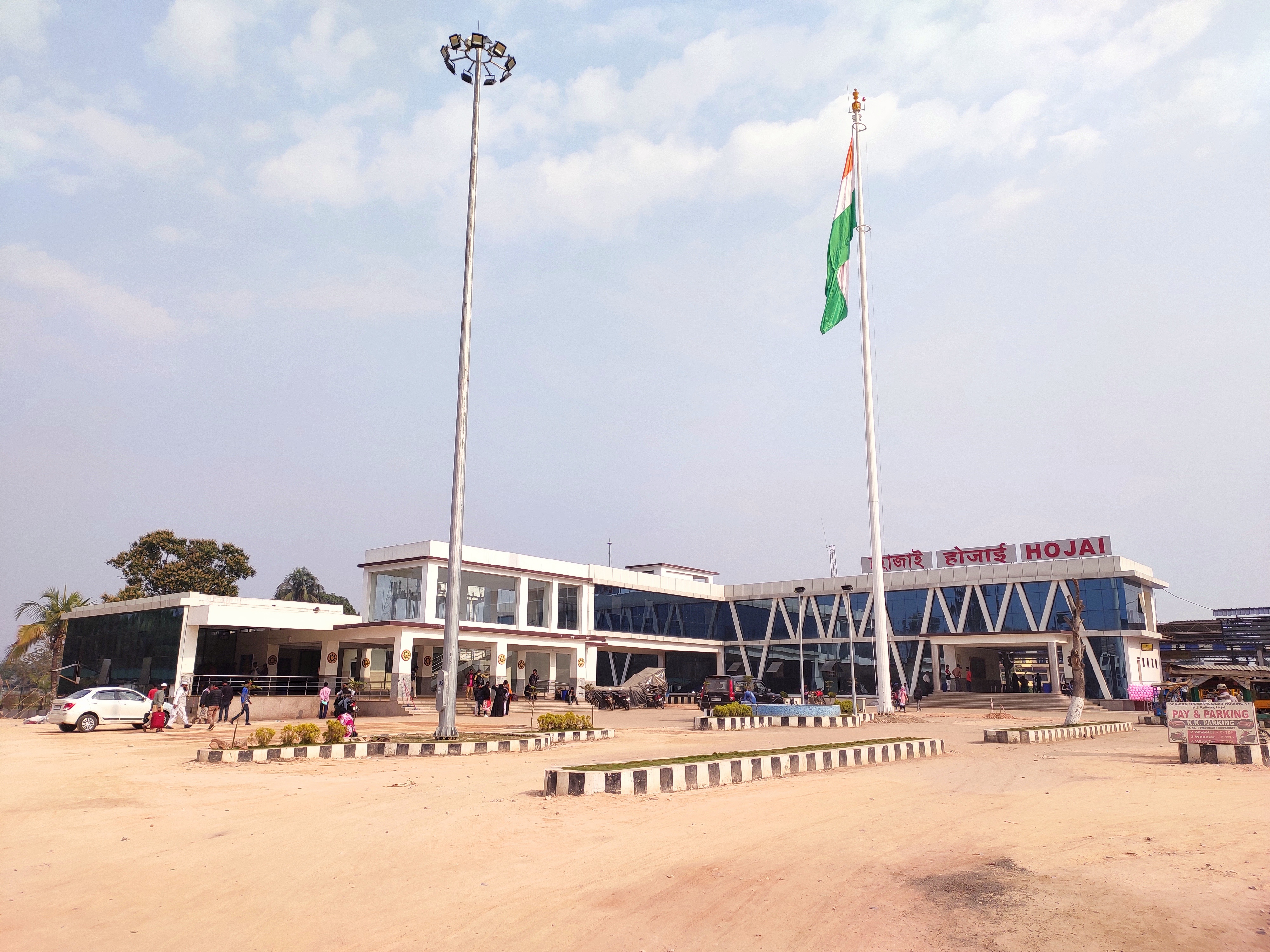 A Picture of Hojai Railway Station